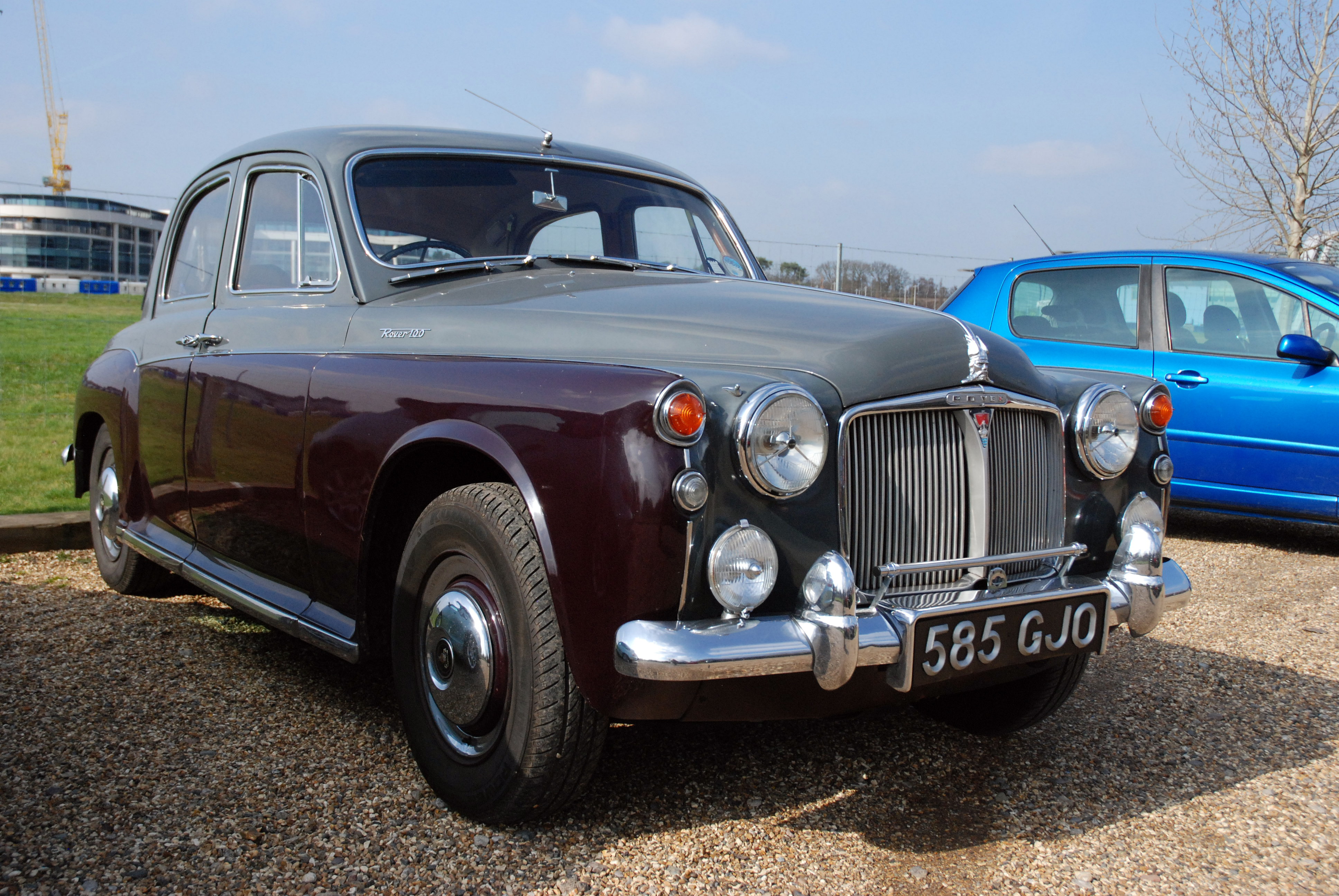 1959 Rover 100 DVLA first registered 11 November 1959, 2625ccBrooklands car park,Mar 2012